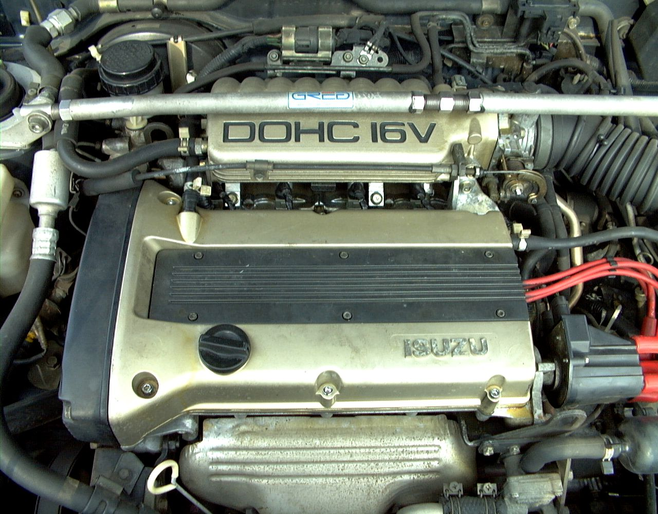 Isuzu 4XE1 engine from a 1987-1989 Isuzu Gemini (JT190).